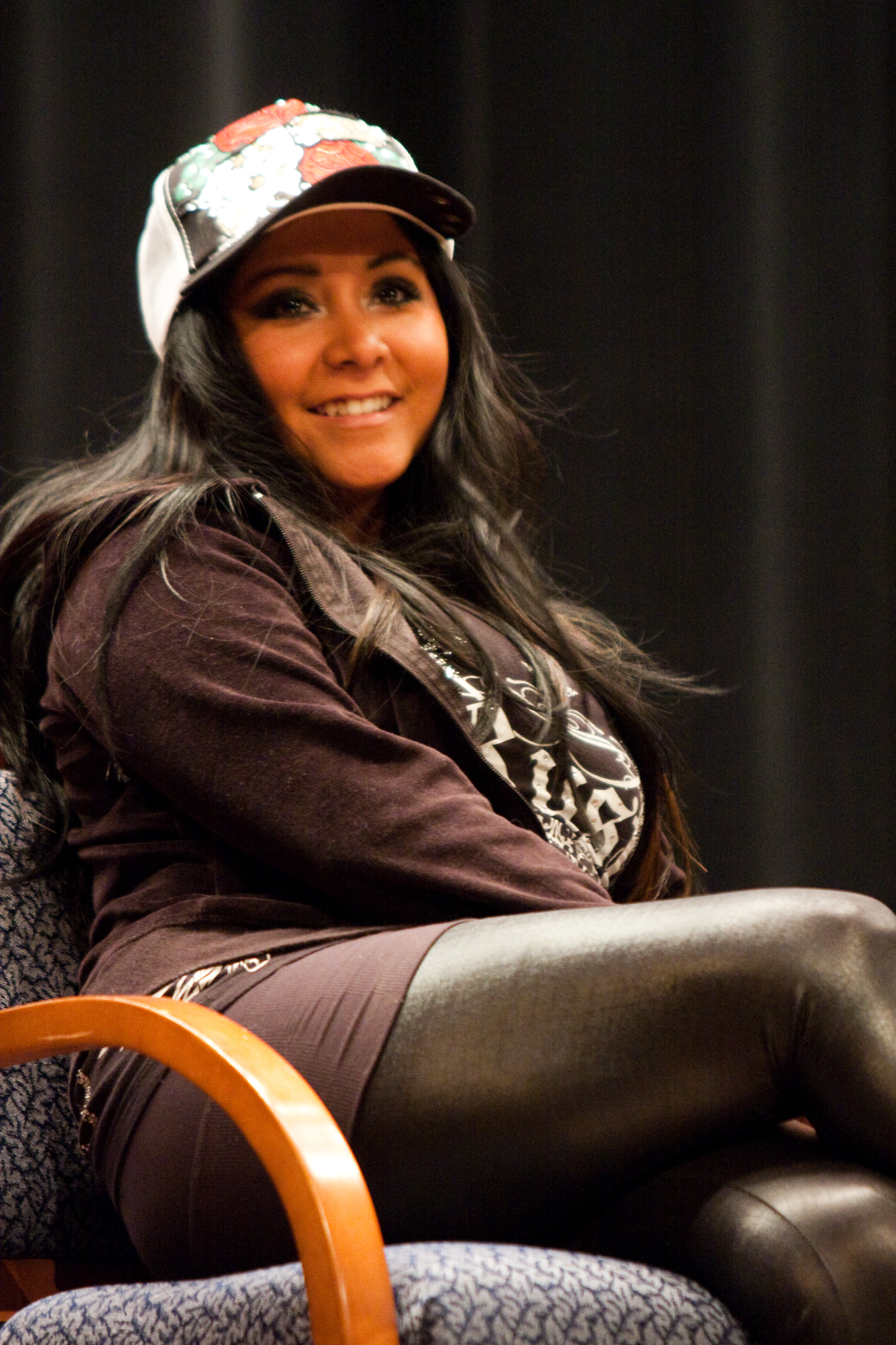 Nicole "Snooki" Polizzi at an appearance at James Madison University